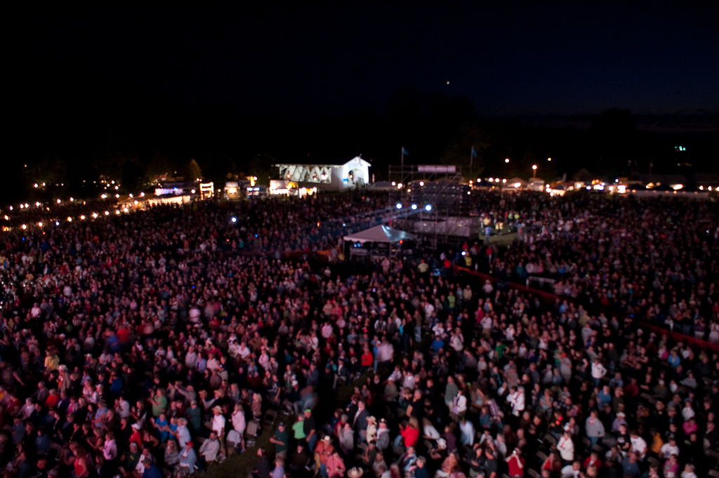 Crowd shot from the Oregon Jamboree